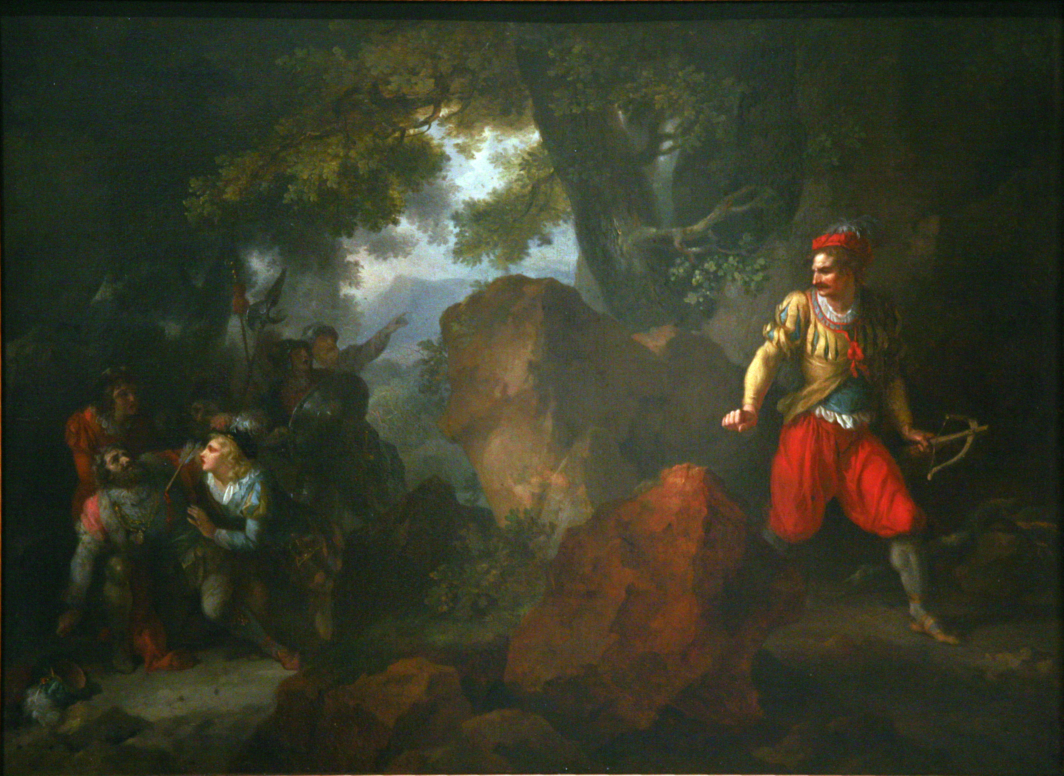 l'Héroïsme de Guillaume Tell,, Jean-Frédéric Schall, oil on wood, 1793. Accession number 1232.